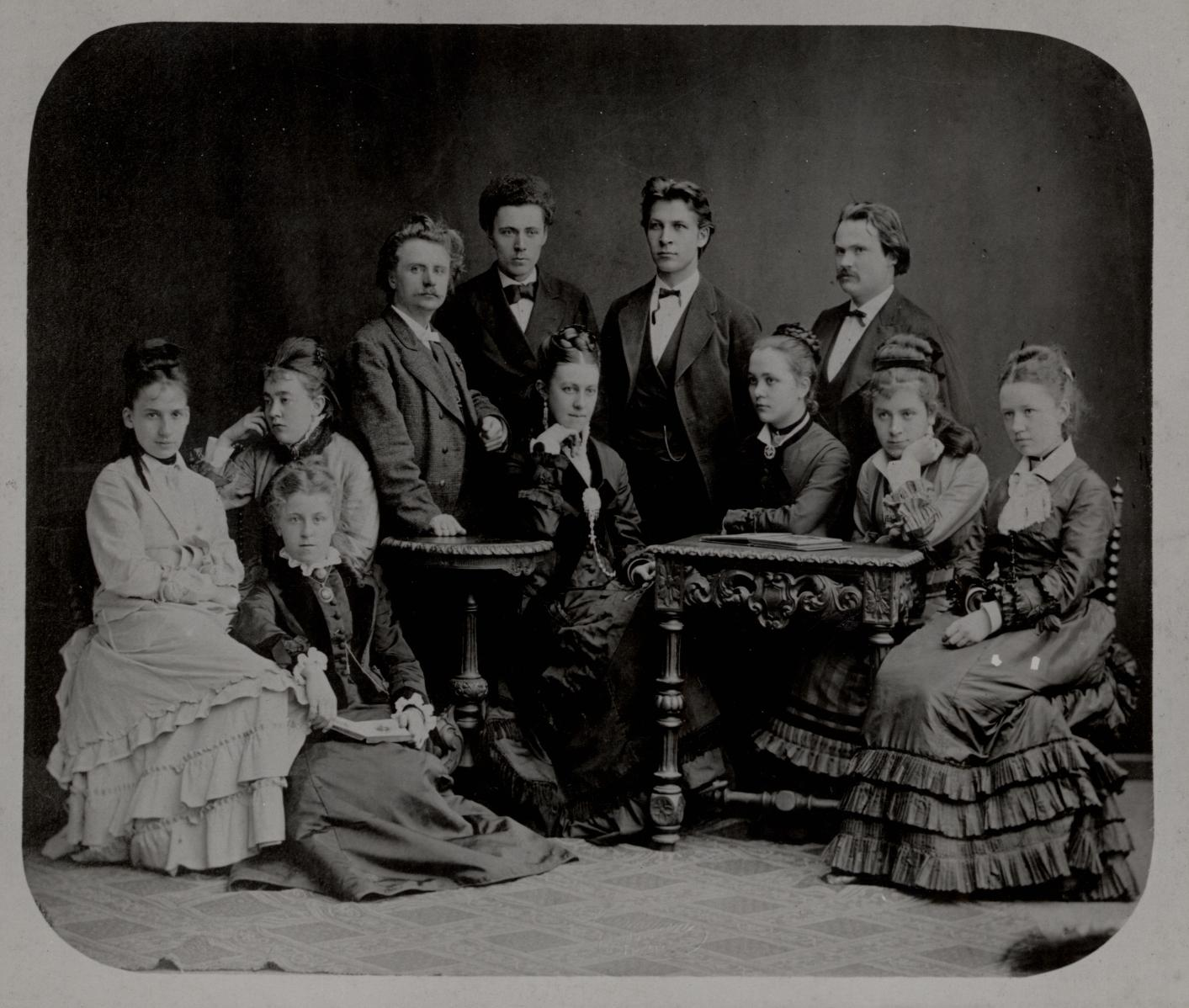 Artist: unknown Date/place: 1876, Leipzig Subject: standing from left; Edvard Grieg, Lauritz Grimstad, H. Ingelius, J. Haarklou. Sitting, from left; Bibba Dahl, Bergitte Oftedal, Randi Nilsen, Inger Holst, Ragna Gropleu, Anna Bjurstedt, Eline Aune. Medium: photographic positive, B&W Notes: none Persistent URL: [#//nettbiblioteket.no/grieg-samlingen/engelsk/grieg_intro_eng.html” Original belongs to the Edvard Grieg Archives at Bergen Public Library]